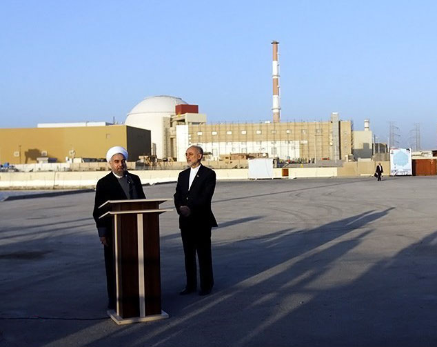 Iranian President Hassan Rouhani and Head of the Atomic Energy Organization of Iran (AEOI) Ali Akbar Salehi in Bushehr Nuclear Plant.